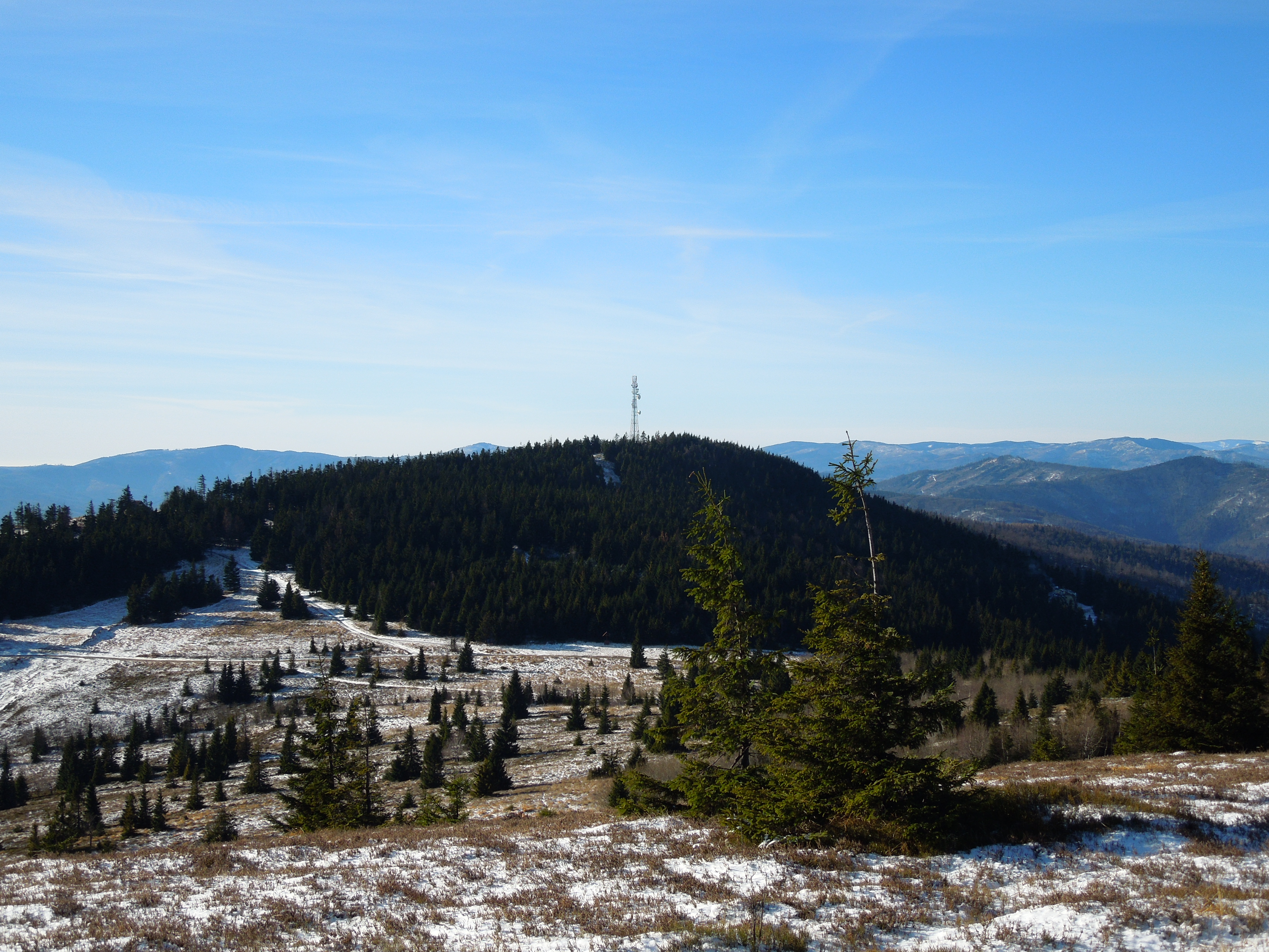 View from Kojšovská hoľa to the west